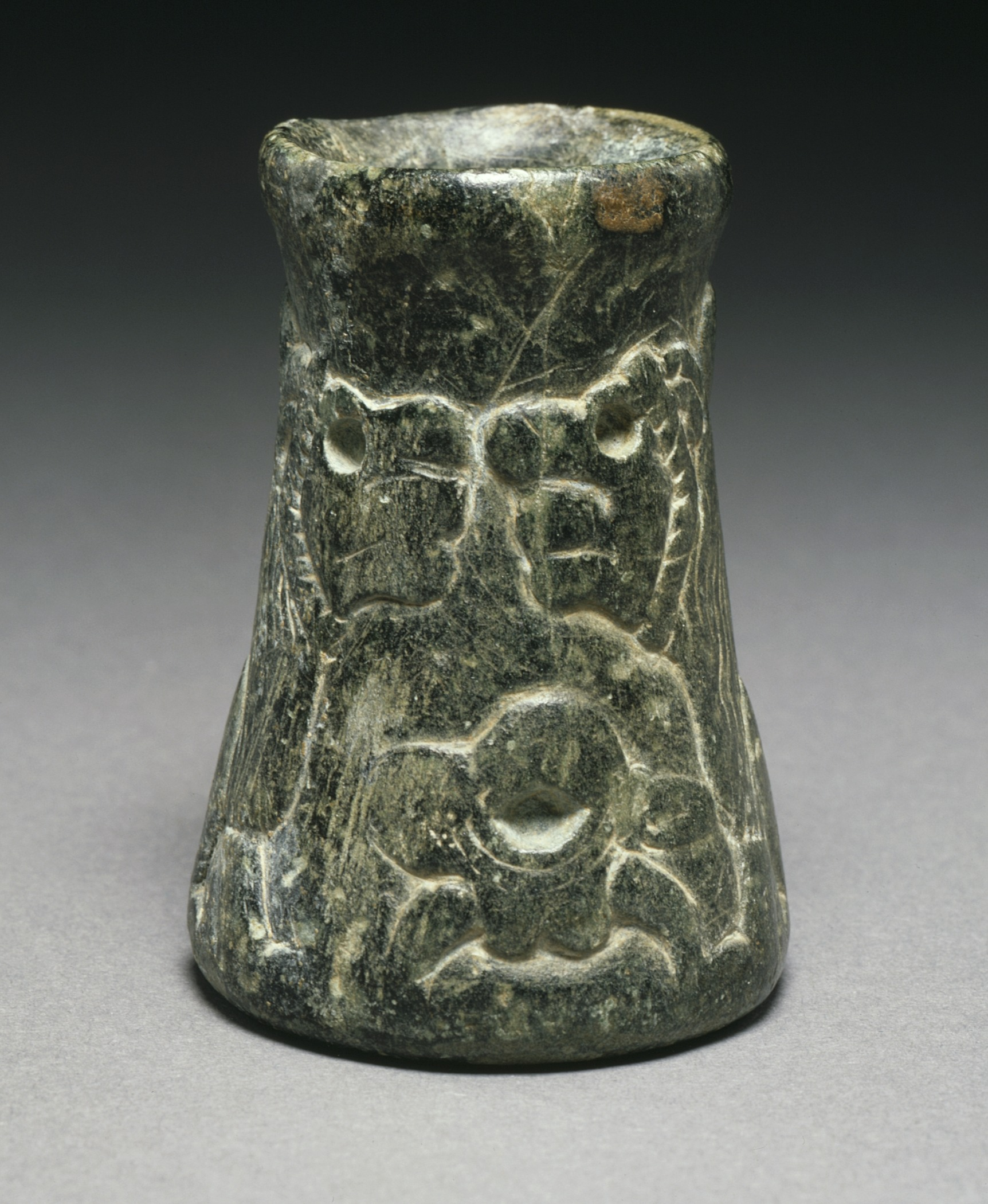 Northern Afghanistan, circa 2700-2500 B.C. Furnishings; Serviceware Chlorite or steatite Height: 2 1/2 in. (6.5 cm); Diameter: 1 3/4 in. (4.6 cm) The Nasli M. Heeramaneck Collection of Ancient Near Eastern and Central Asian Art, gift of The Ahmanson Foundation (M.76.97.902) Art of the Ancient Near East Currently on public view: Hammer Building, floor 3